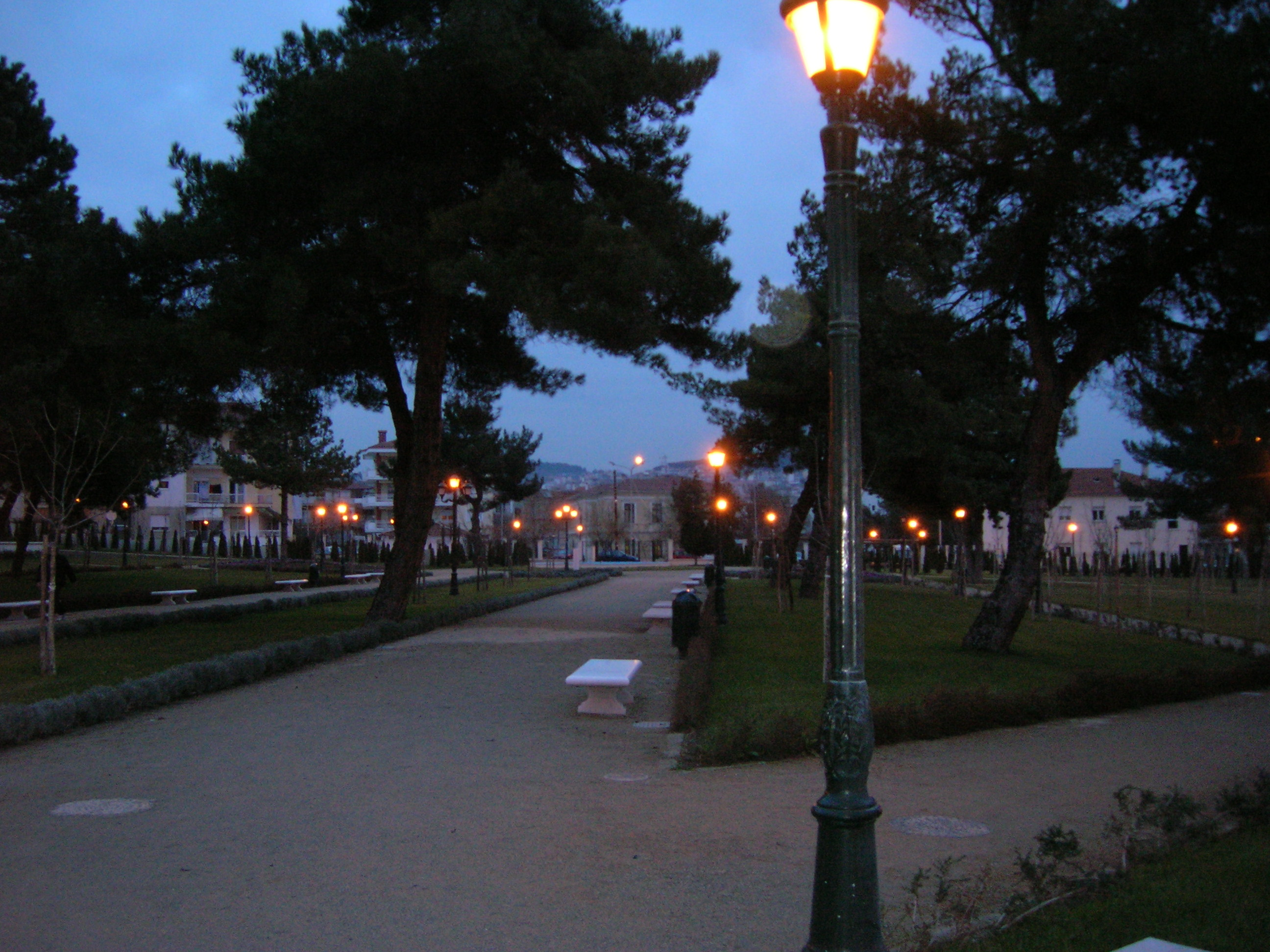 User:Makedonas is the creator of this work.